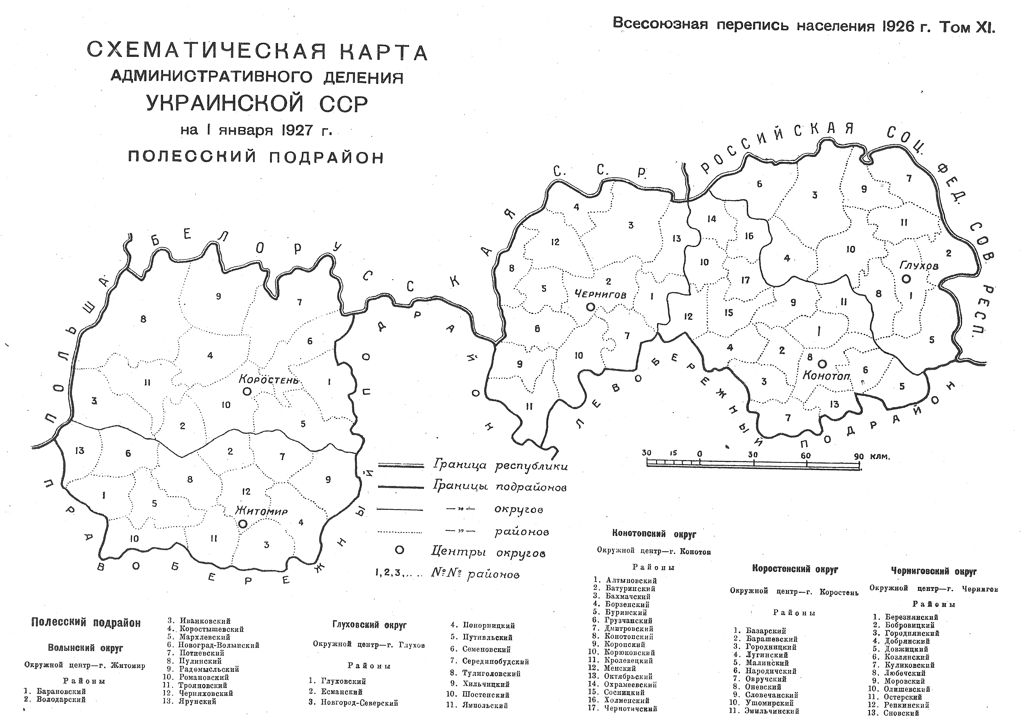 Polissia region of Ukrainian SSR in 1926